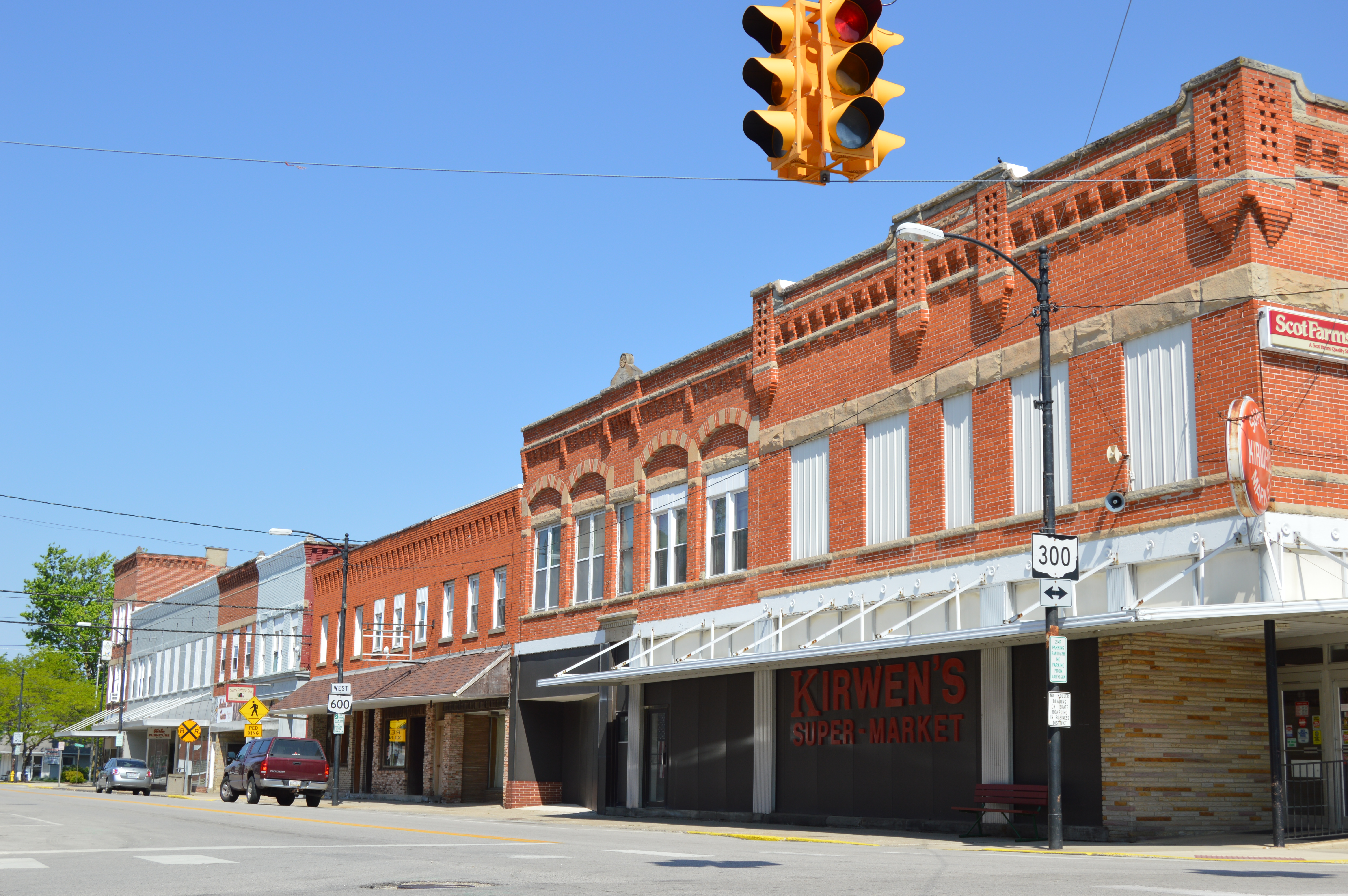 Buildings on the northern side of Madison Street (State Route 600) looking west from Main Street (State Route 300) in downtown Gibsonburg, Ohio, United States.